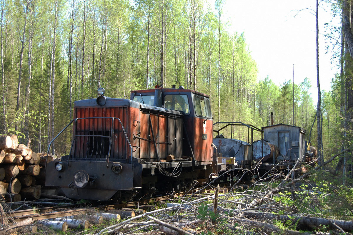 Kobrinskaya railway